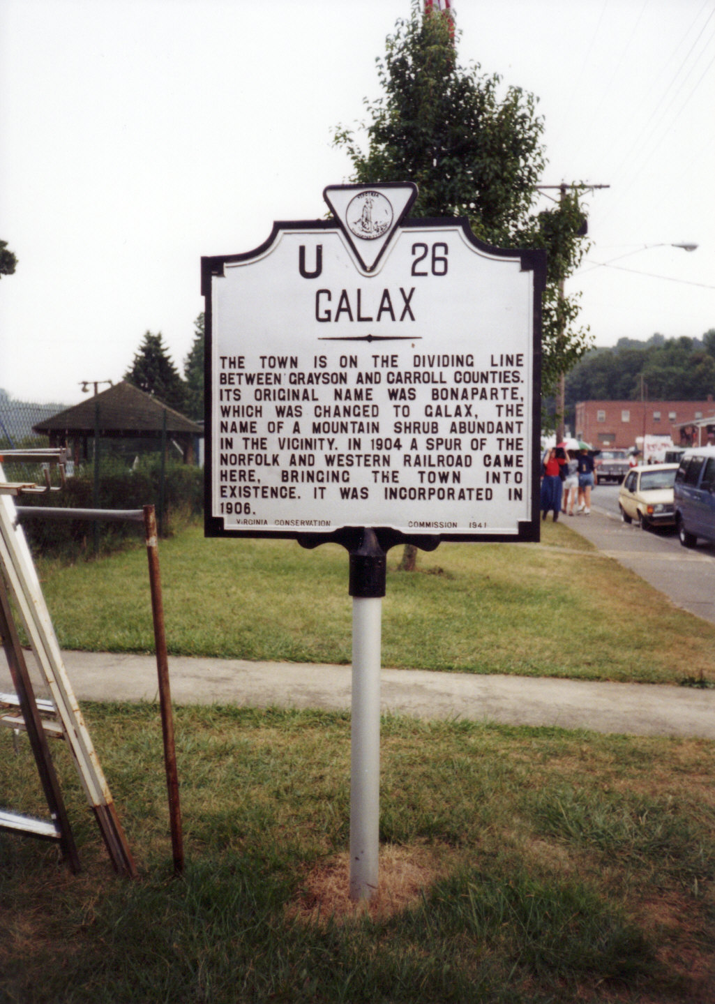 Historical marker at Galax, Virginia, United States. Photo taken August 1998 during the 1998 Old Fiddler's Convention in Galax, Virginia, United States. Self-made photo.